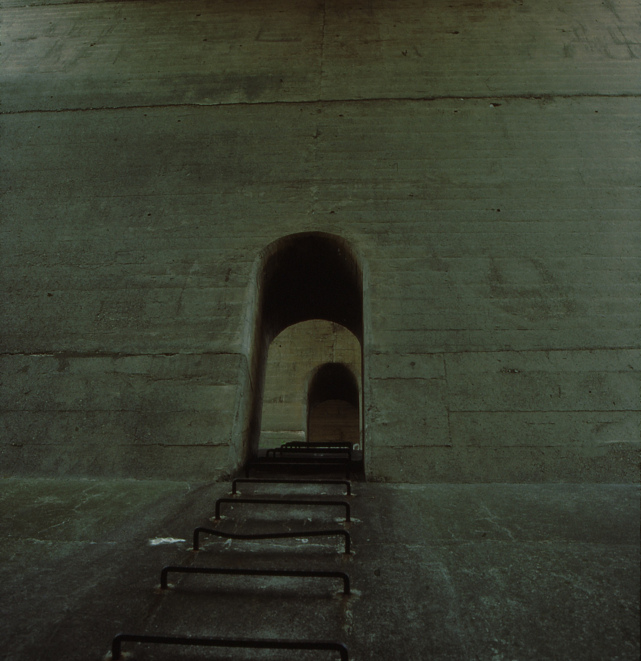 Internal inspection crawlway inside Paulins Kill Viaduct. Wally From Columbia (NJ) (talk) 02:07, 8 December 2010 (UTC)